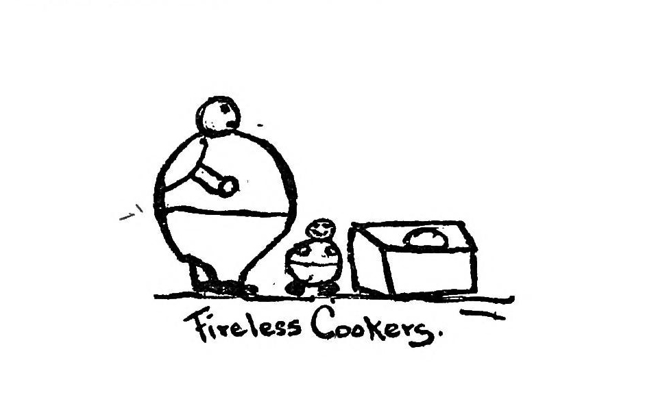 "Fireless Cookers" illustration from Diet and health, with key to the calories, by Lulu Hunt Peters, 1873-1930. Chicago, The Reilly and Britton co. [c1918], p. 13.